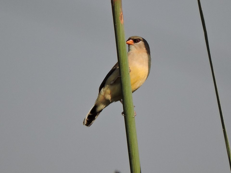 Red Avadavat-female, Chappar Chirri, Mohali, Punjab, India